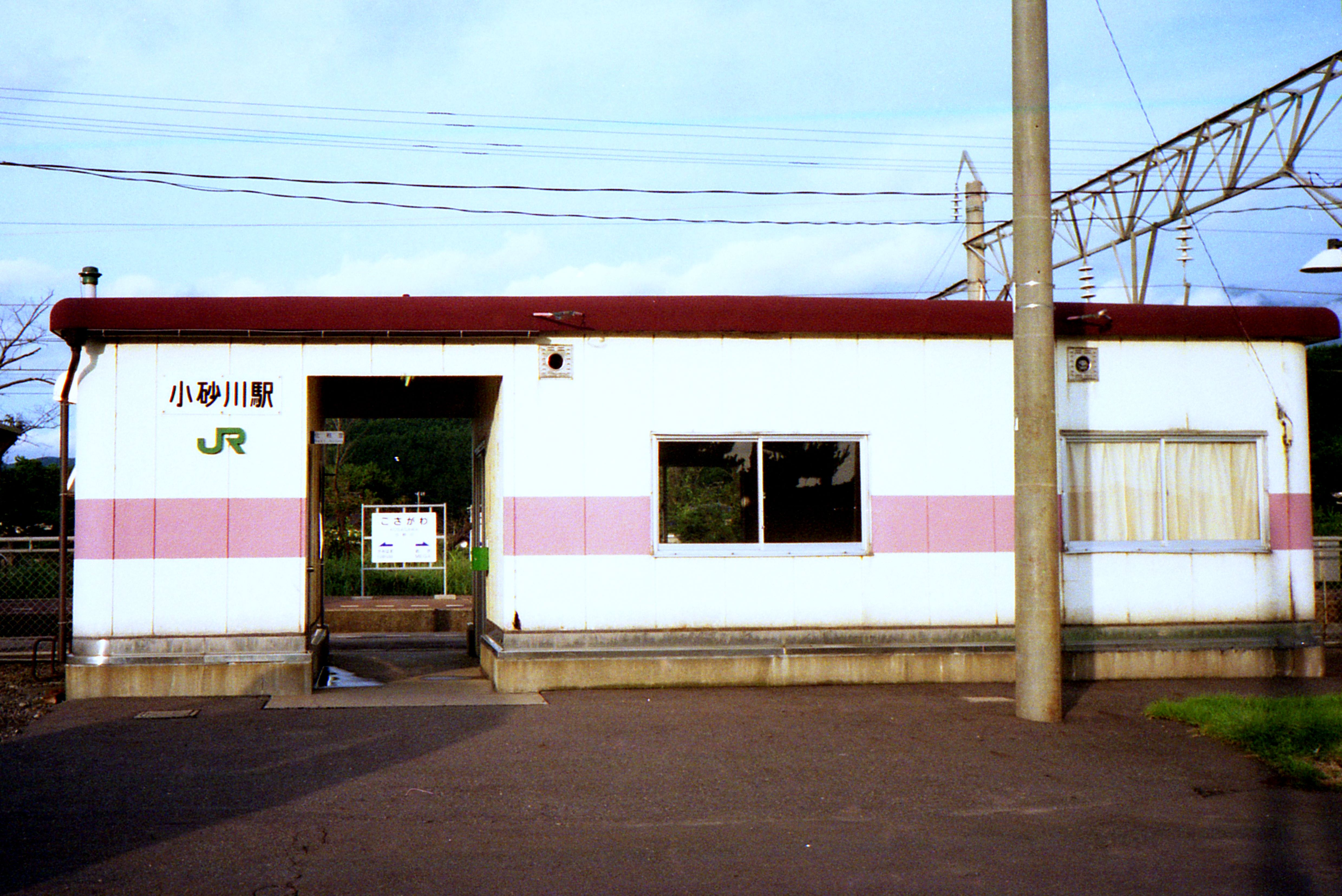 Old building of Kosagawa Station on JR East Uetsu Main Line